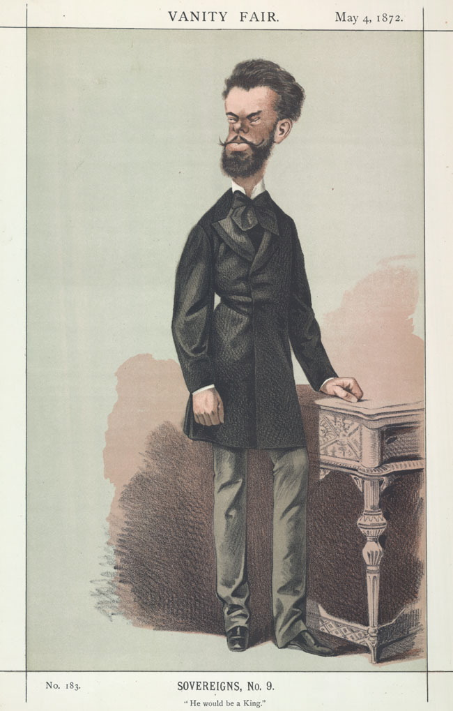 Sovereign No.9: Caricature of King Amadeus of Spain. Caption reads "He would be a King".